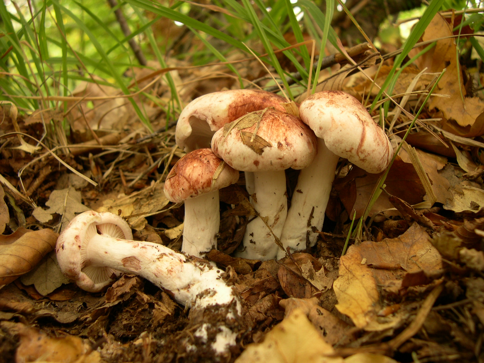 Hygrophorus russula (Fr.) Kauffman 1918